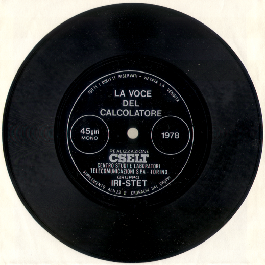 This is the picture of the audio disk distributed for free in the 1978 by CSELT with many magazines to show everybody the capabilities of their MUSA text-to-speech synthesizer